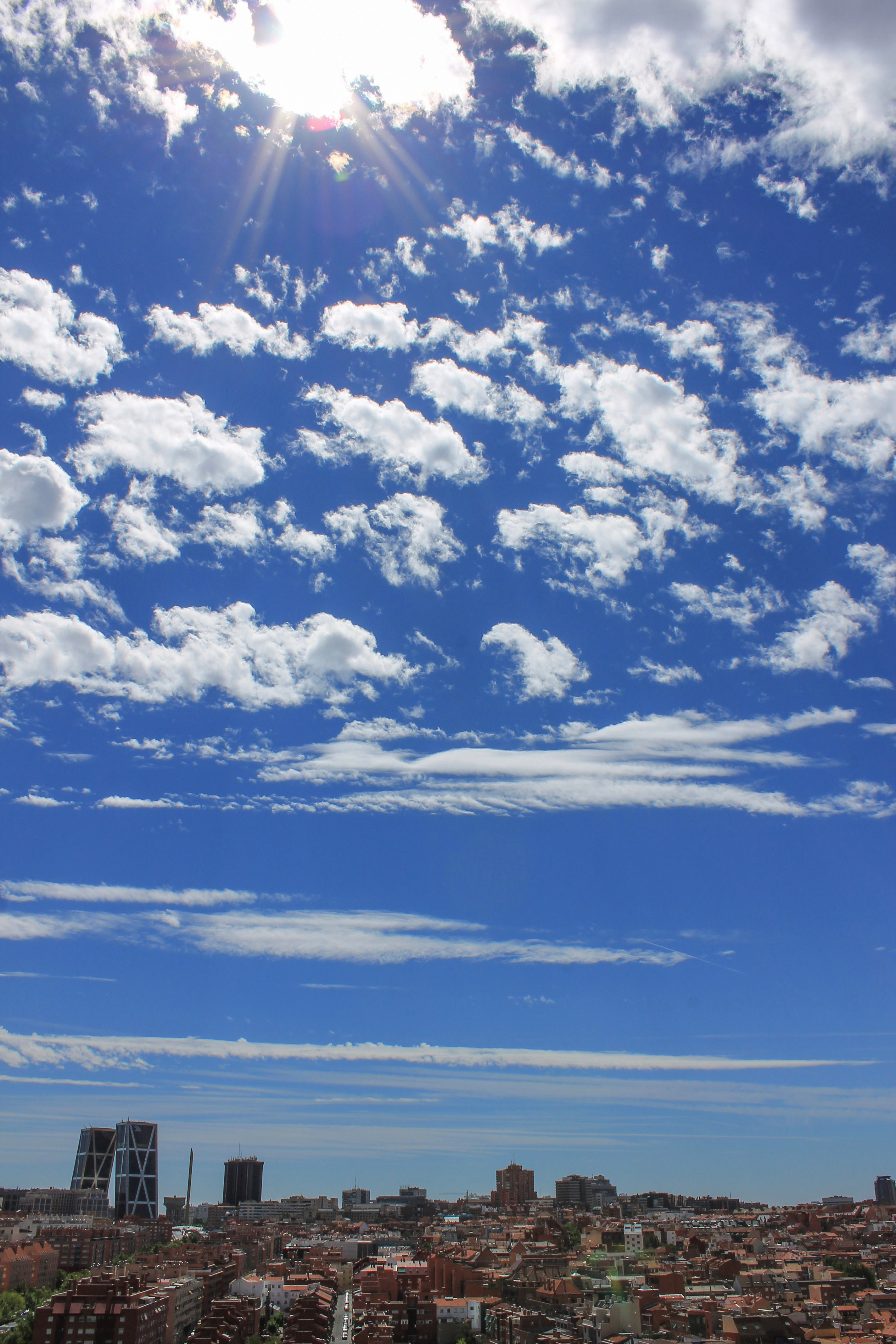 The sky over Tetuán district in Madrid (Spain). Left: Gate of Europe (inclined buildings).